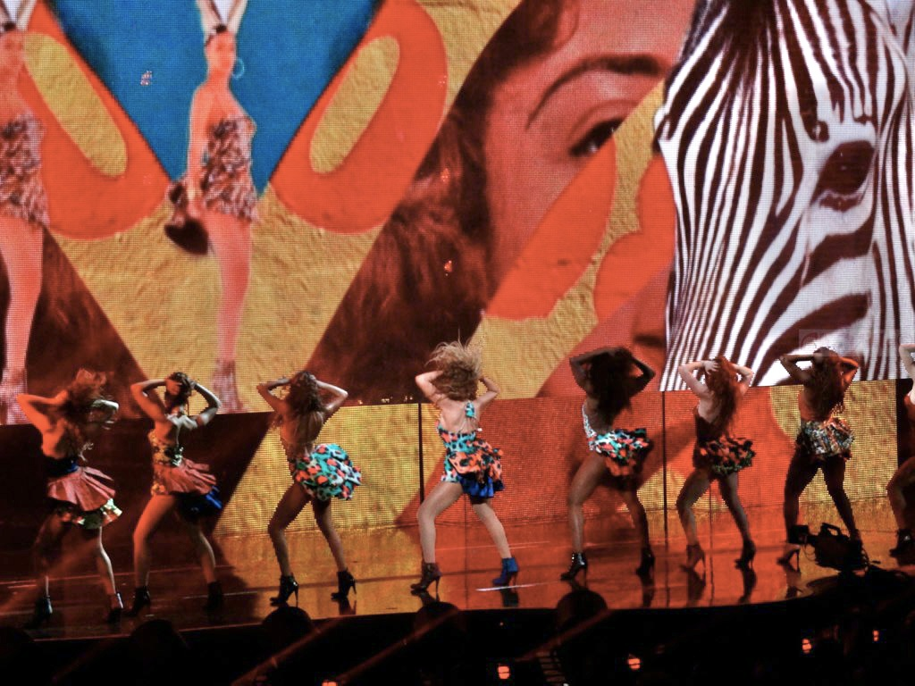 Beyonce performing "Grown Woman" in Montreal in 2013 during The Mrs. Carter Show World Tour.